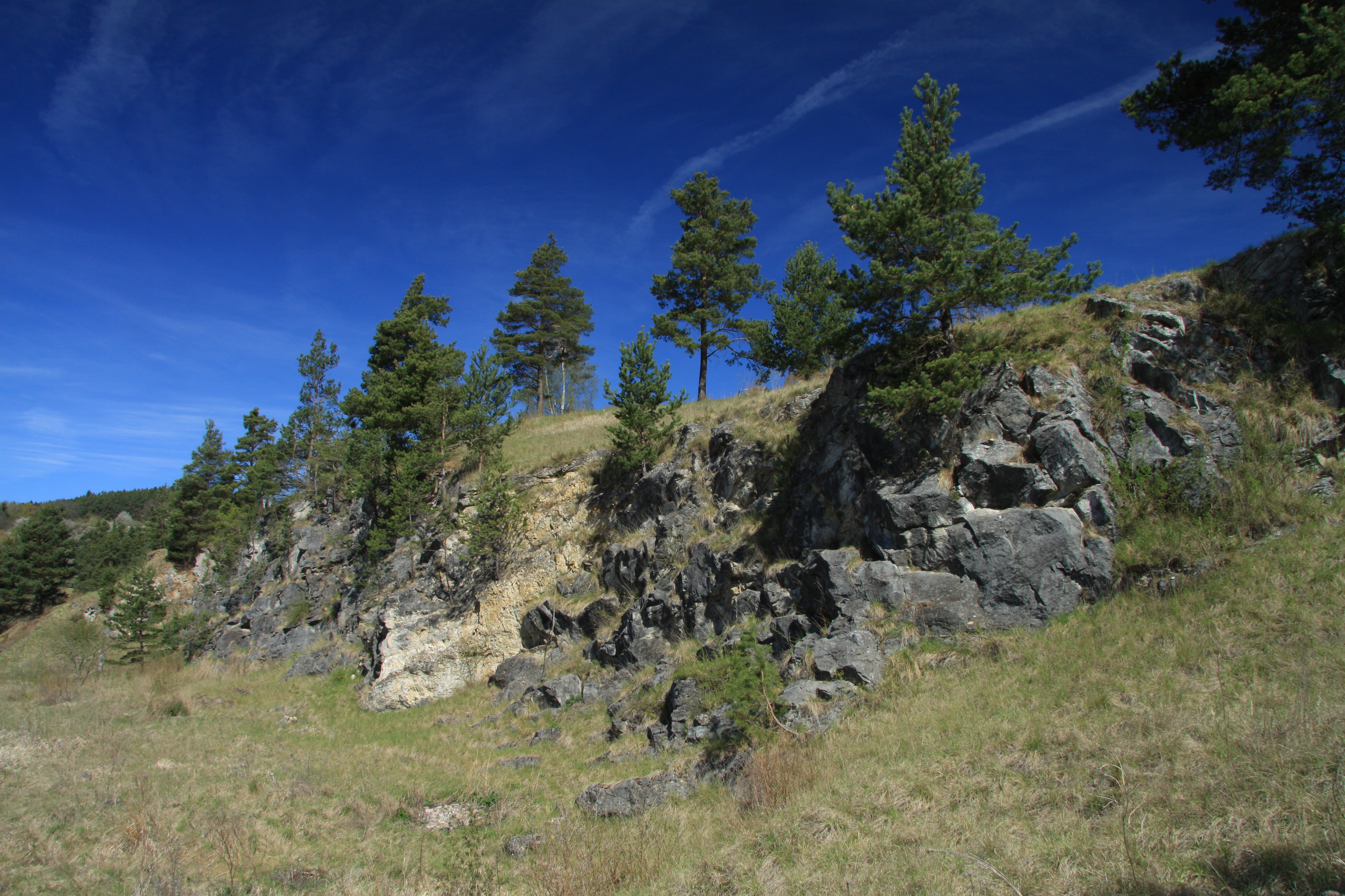 National nature reserve Vyšenské kopce in Český Krumlov District, Czech Republic Project: Chráněná území